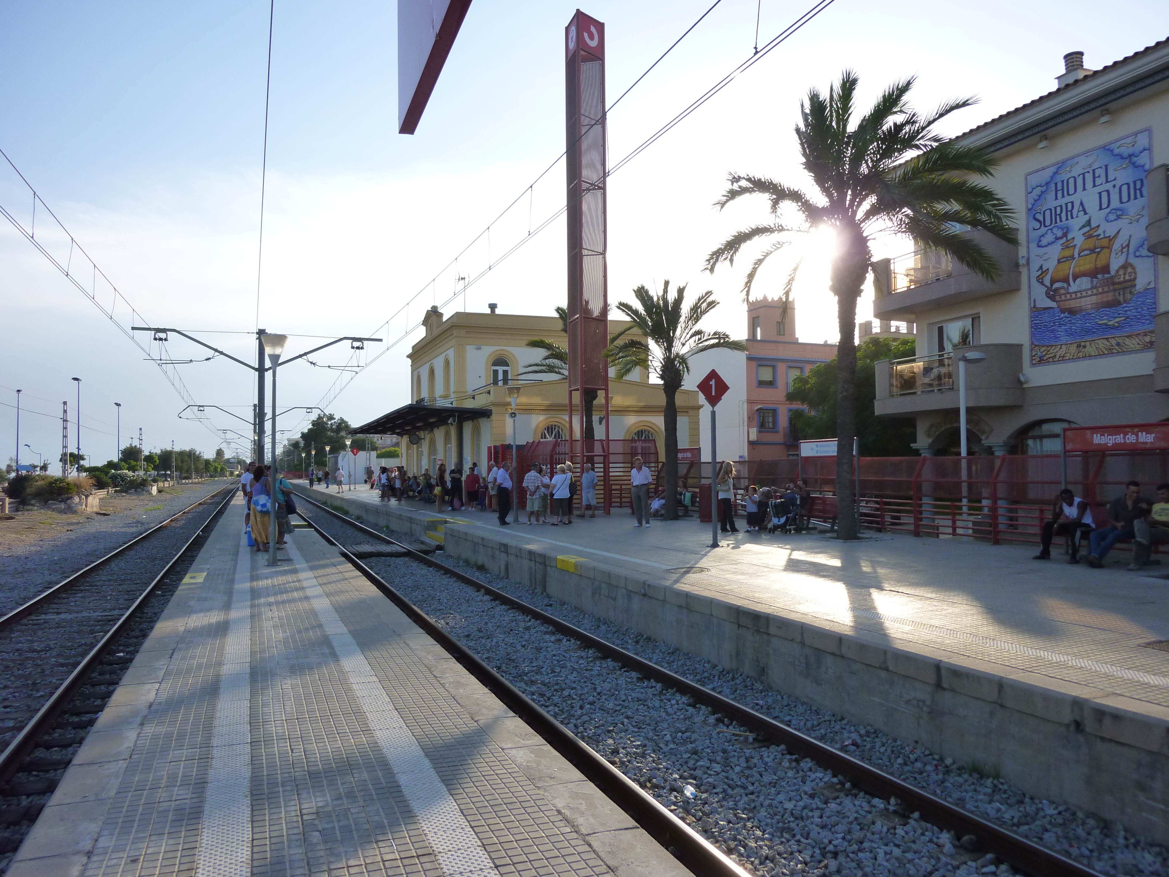 Image of the station and the railway tracks in Malgrat de Mar (Maresme, Catalunya).